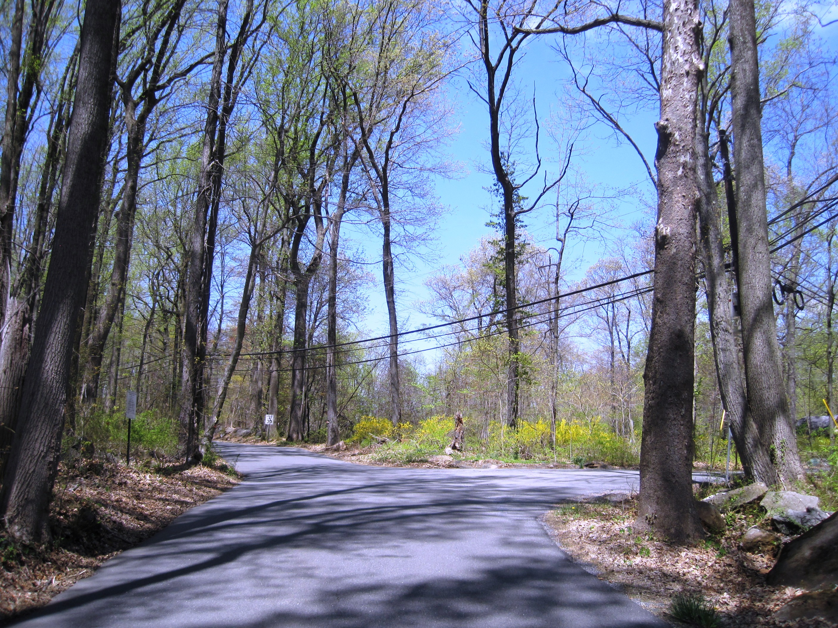 Photo showing Buttonwood Corners, New Jersey, an unincorporated community within East Amwell Township. Photo taken on Lindbergh Road at South Hill Road.